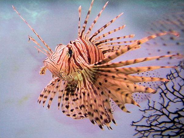 Lion Fish